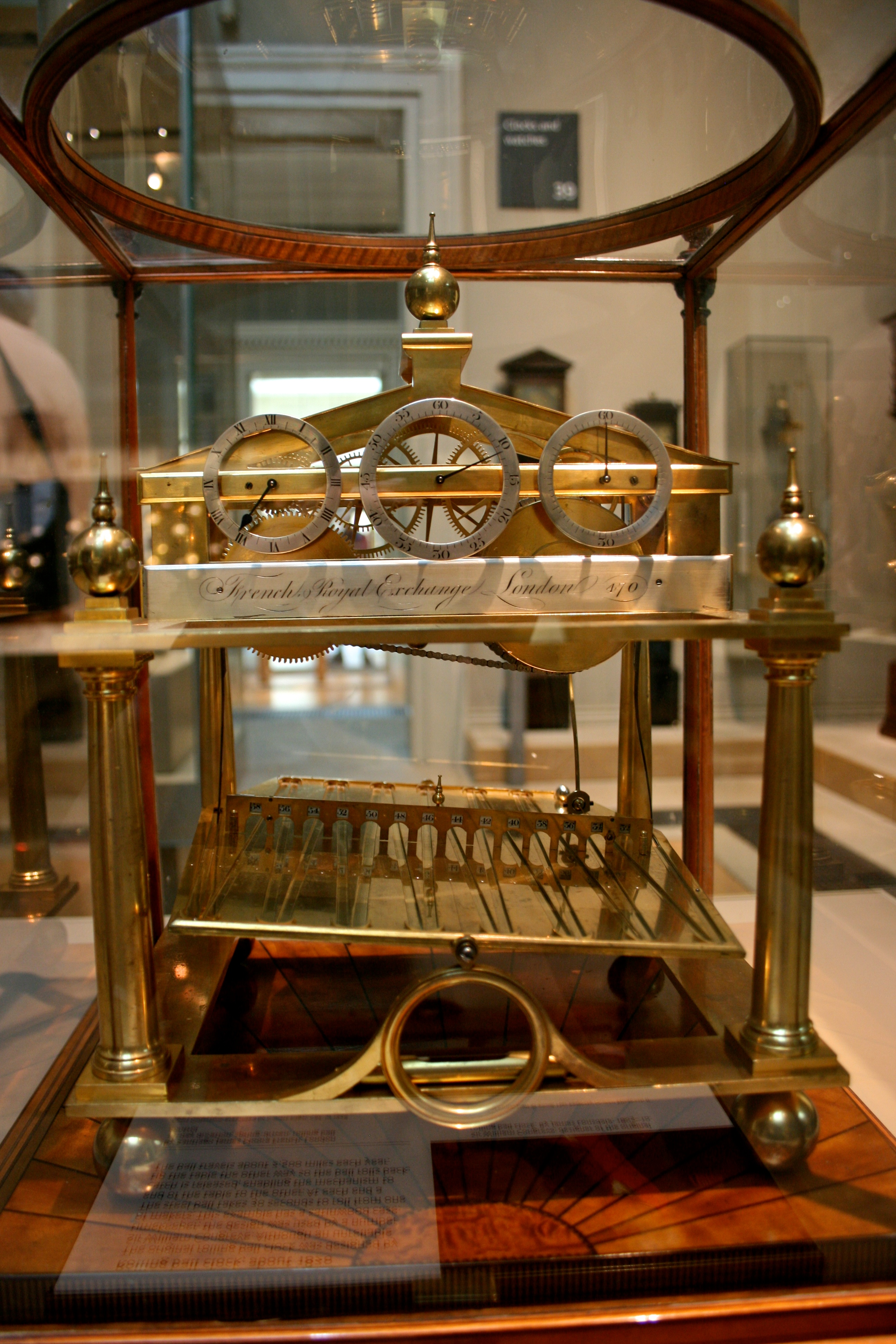 Rolling ball clock, about 1820. P&E CAI-2137. In the British Museum.